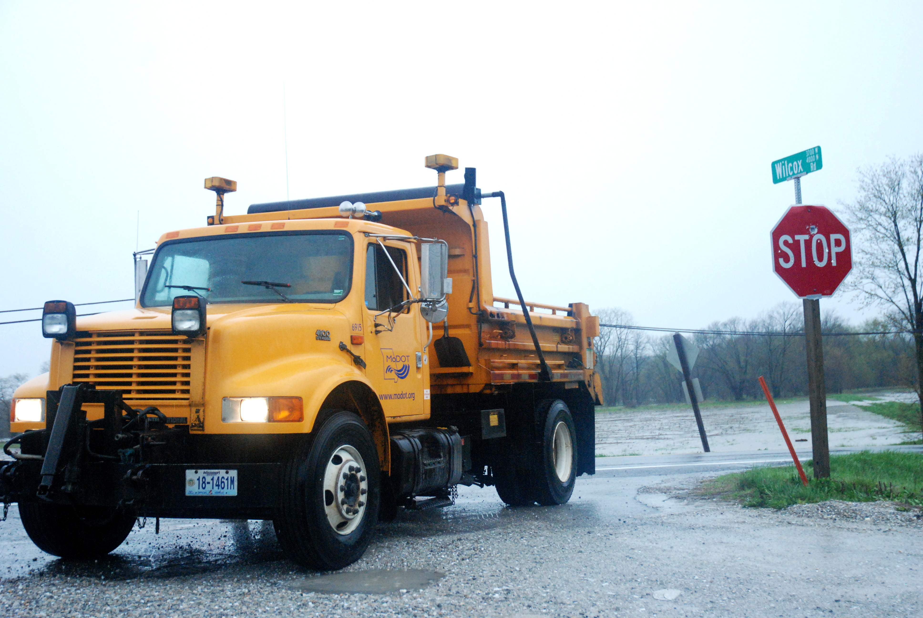 Missouri Department of Transportation sets up road block signs along Route E and Wilcox Road in Boone County, Missouri to warn drivers of flooded roads on April 18, 2013. (Heather Adams/KOMU News)